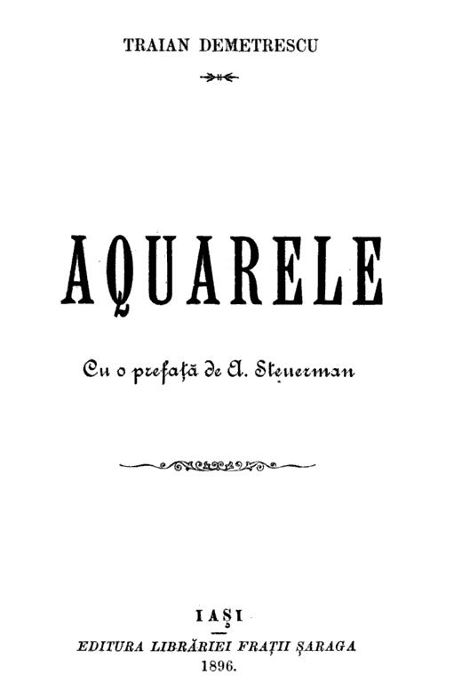 Traian Demetrescu - First page of Aquarele, published by Editura Librăriei Fraţii Şaraga, Iaşi in 1896.